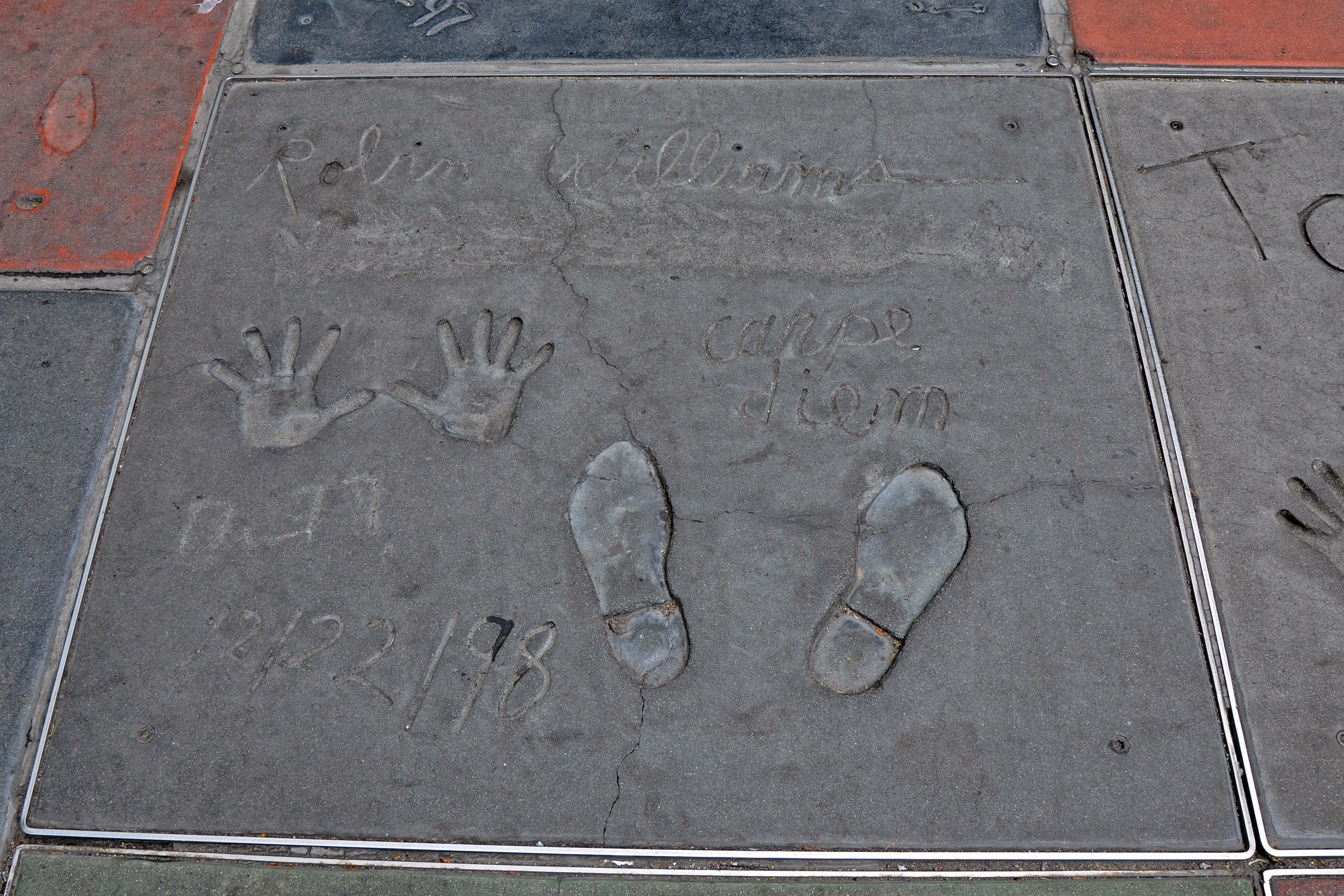 Impronte di Robin Williams al TCL Chinese Theatre a Los Angeles, agosto 2011